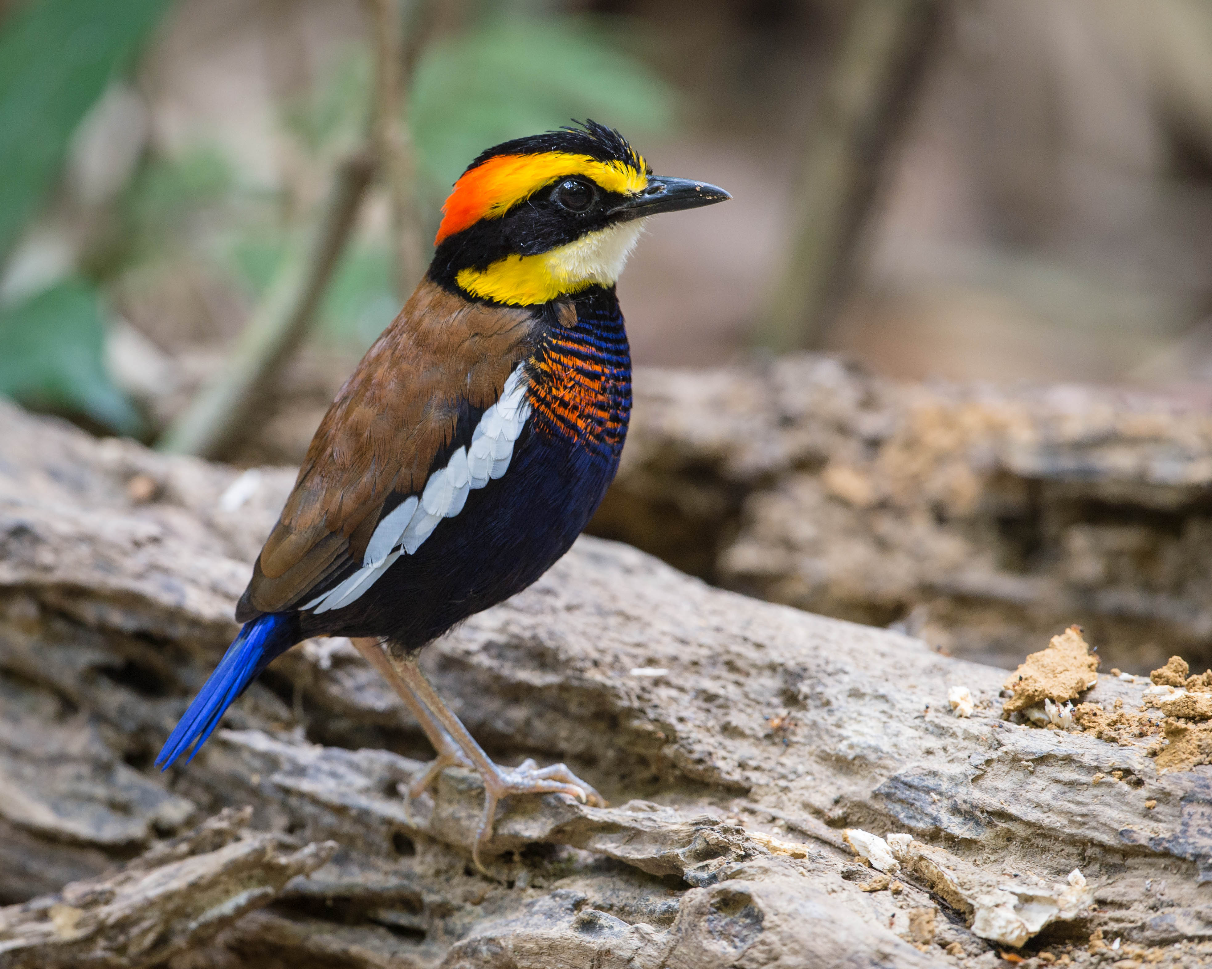 A male Malayan banded pitta, Hydrornis irena, on 9th March 2013 in Sri Phang-nga National Park, southern Thailand